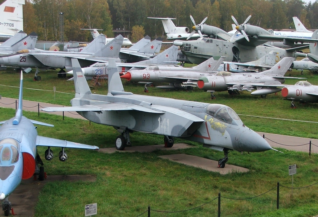 Yak-141 VTOL fighter at Central Russian Air Force museum, Monino